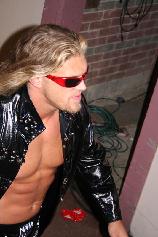 Edge (Adam Copeland) during a WWE house show held in Kitchener, Ontario, Canada on August 12, 2005.edge